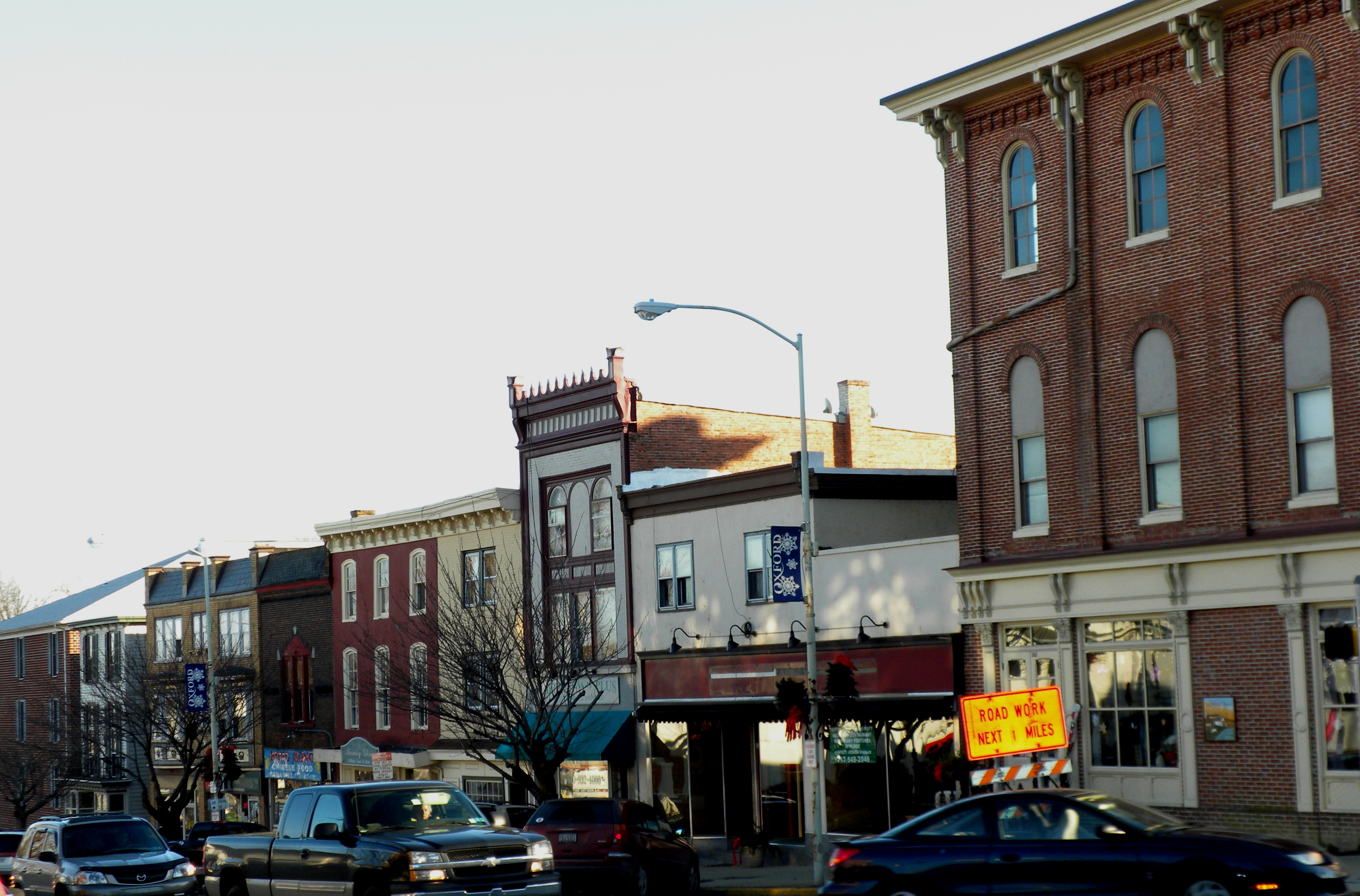 Oxford PA downtown, across from Oxford Hotel, in NRHP historic districe, in Chester County, PA. This photo is my own work and I donate it to the public domain.